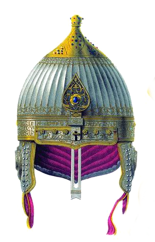 Шлем царя Алексея Михайловича При описании шапки вывоза боярина Афанасия Прончищева (рис. № 10, 11) мы объяснили причину ошибочной подписи, сделанной на рисунках ерихонских шапок Алексея Михайловича Львова, Прончищева и Мстиславского. Шлем, изображенный на рисунках № 16 и 17, подписанный: «царя Алексея Михайловича», принадлежал, как оказалось теперь, по рассмотрении старинных описей 1687-го и 1701 г., боярину князю Федору Ивановичу Мстиславскому. В описной книге государевой Оружейной казны 1687 г. он означен в числе ерихонских шапок третьим: «Шапка Ерихонская булат красной, наведена по нарезке золотом, нос и уши прорезные; венец и кайма поверх венца, и затылок, и полка наведены золотом же, в ушах в закрепке девяносто шесть гнезд серебреных горощетых, да в венце и в полке и в ушах двадцать гвоздей серебреных золоченых, репчатых; верх и яблочка и плащи чеканные золотые с каменем, каменье бирюз и винисок пятьдесят восемь; около шапки и полки и затылка и ушей дорога серебреная позолочена; по верхним плащам кайма наведена по нарезке золотом; на носу в гнездех камень яхонт лазорев с дырою; на носу ж на спне в закрепке два зерна бурмицких, подложены отласом червчатым; на ушах по две завязки отласных по червчатой, да по жолтой; у затылка три цепочки серебряных золочены; а в прежних переписных книгах под тою статьею написано по сказке мастеров: та шапка бывала Князя Федора Ивановича Мстиславскаго. А по нынешней переписи рч`є года и по осмотру, та шапка против прежних переписных книг сошлась; чехол суконной красной; по осмотру, на затылке у чепочки гвоздика нет. Цена той шапке триста тридцать рублев, а в прежней описной книге написана первою».